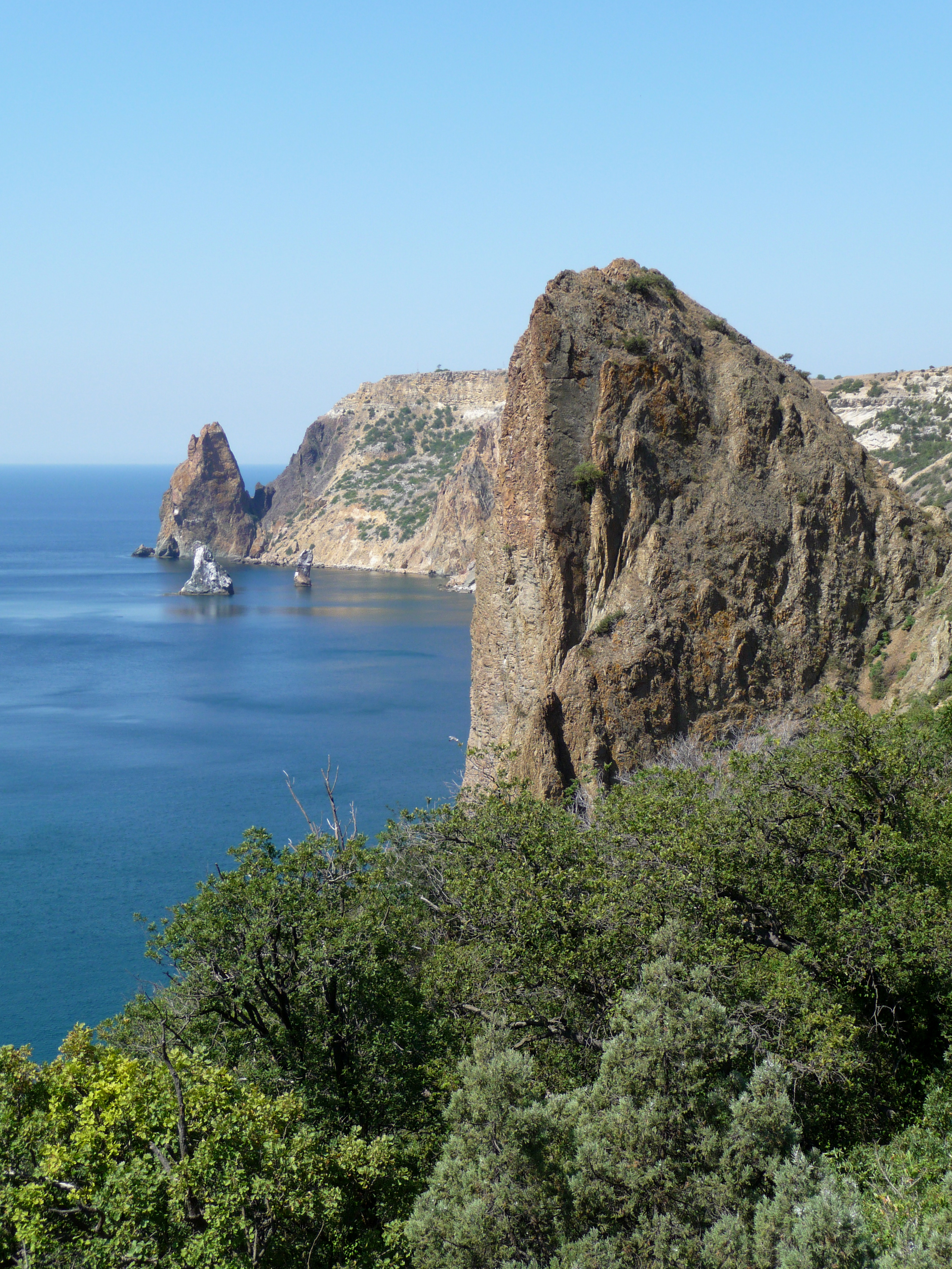 The Black sea, Fiolent rocks formation near Sevastopol.